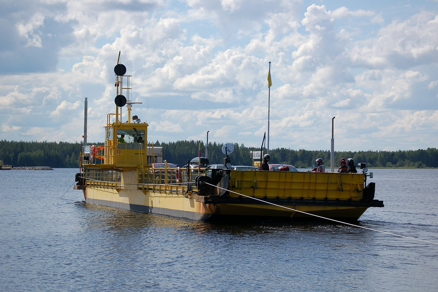 Alassalmi cable ferry operates in a narrow strait on the south side of Manamansalo island and the mainland in Vaala, Finland. The ferry has just left from Manamansalo.